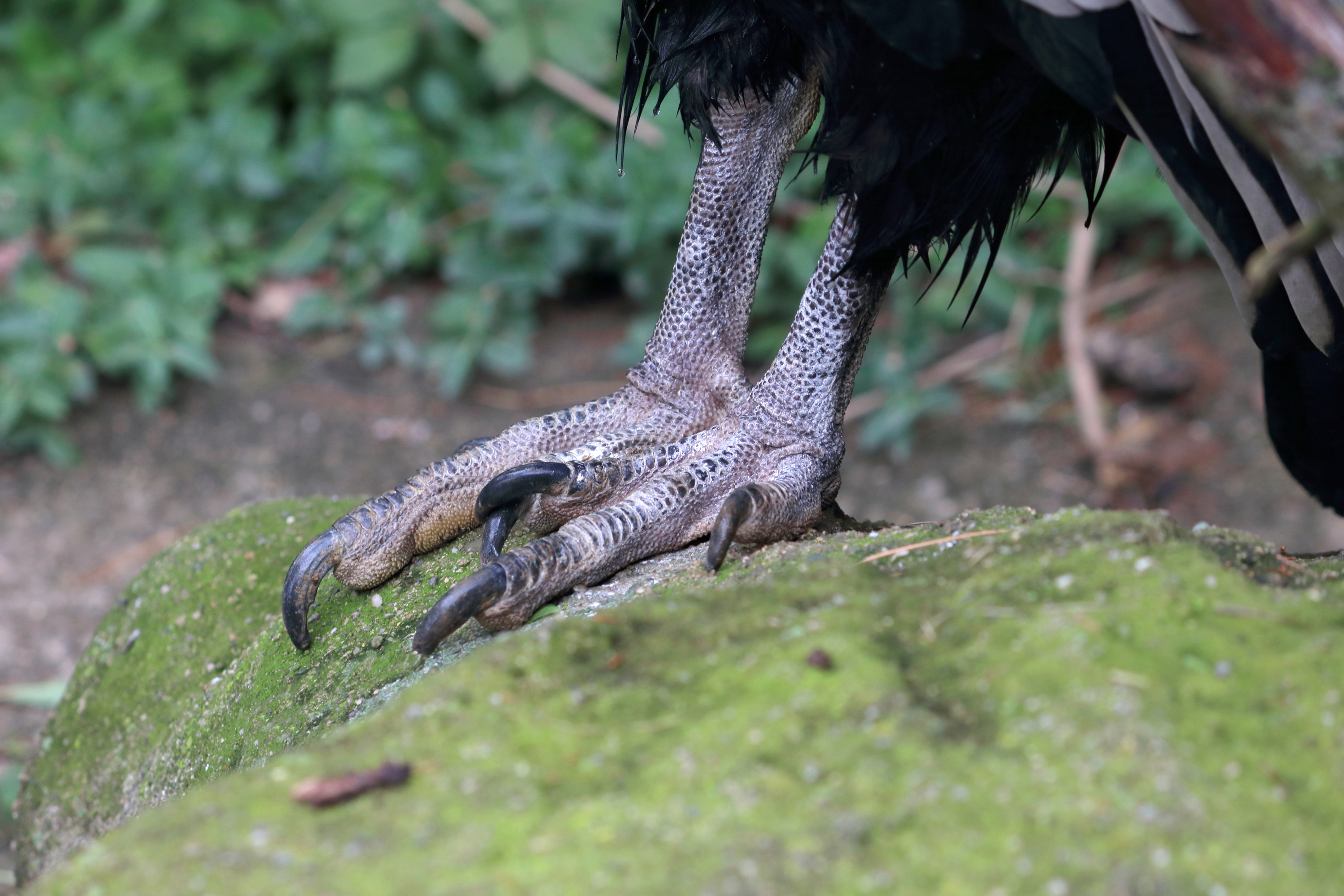 Vultur gryphus talon - taken at the Cincinnati Zoo.